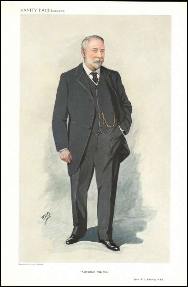 Men of the Day No.1197: Caricature of The Hon WS Fielding MP. Caption reads: "Canadian Finance"